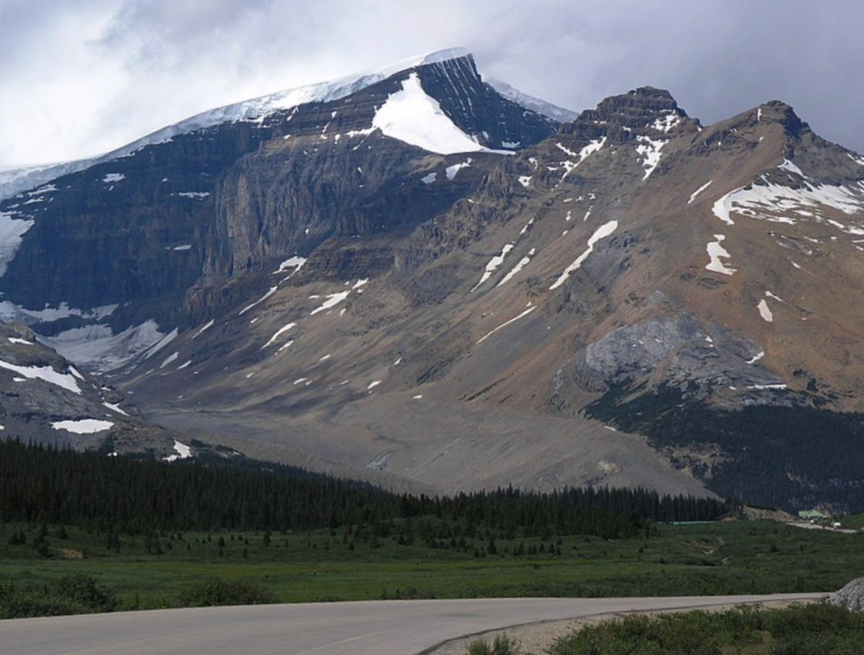 View of Mt. Kitchener and Mount K2 from the Icefields Parkway